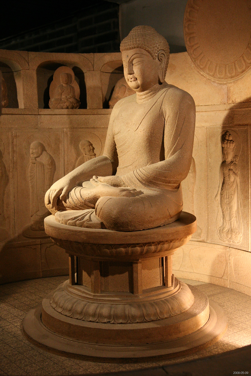 Gyeongju, North Gyeongsang province, South Korea